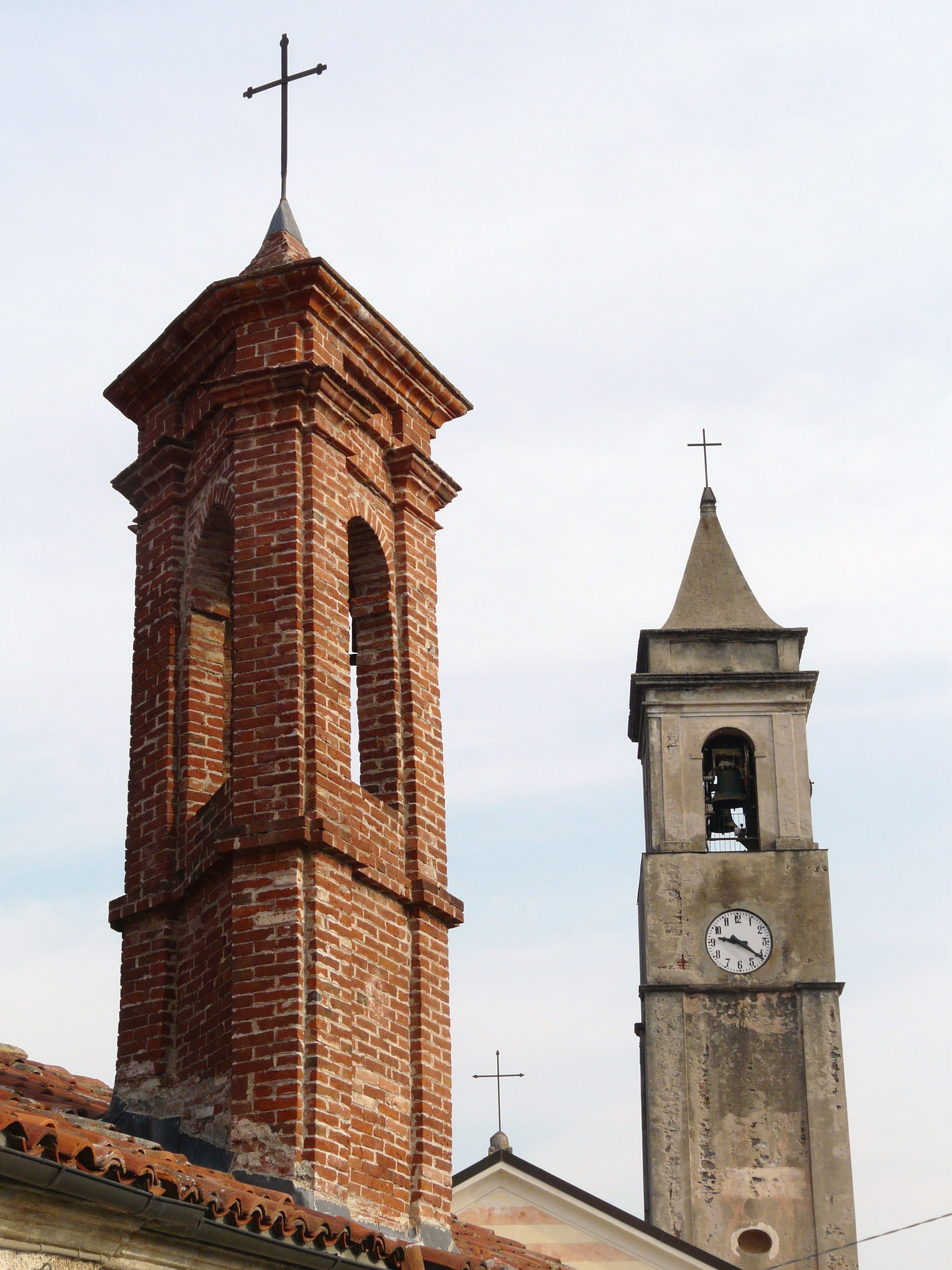 Church towers of "oratorio dei displinanti" (left) and "dell'Immacolata Concezione" (right) in Cosseria, Italy